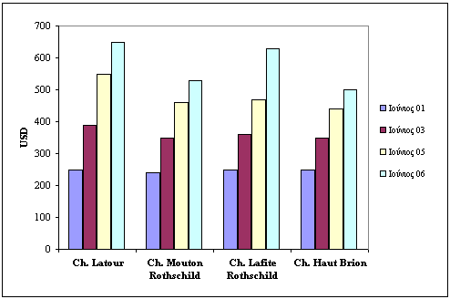 Table wine prices